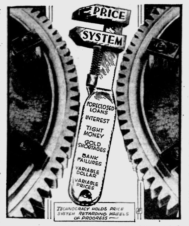 Technocracy: "Price System: Foreclosed Loans, Interest, Tight Money, Gold Shortages, Bank Failures, Variable Dollar, Variable Prices - Technocracy Holds Price System Retarding Wheels of Progress."